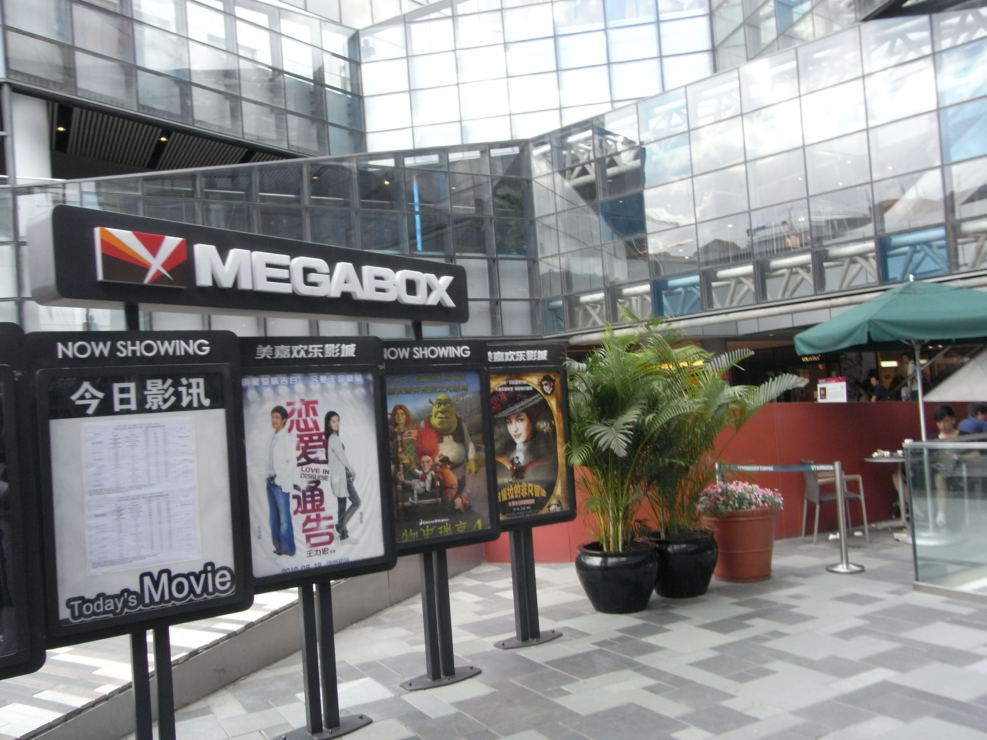 Megabox Sanlitun (S: 三里屯美嘉欢乐影城, T: 三里屯美嘉歡樂影城, P: Sānlǐtún Měijiāhuānlè Yǐng Chéng), Chaoyang District, Beijing, August 2010